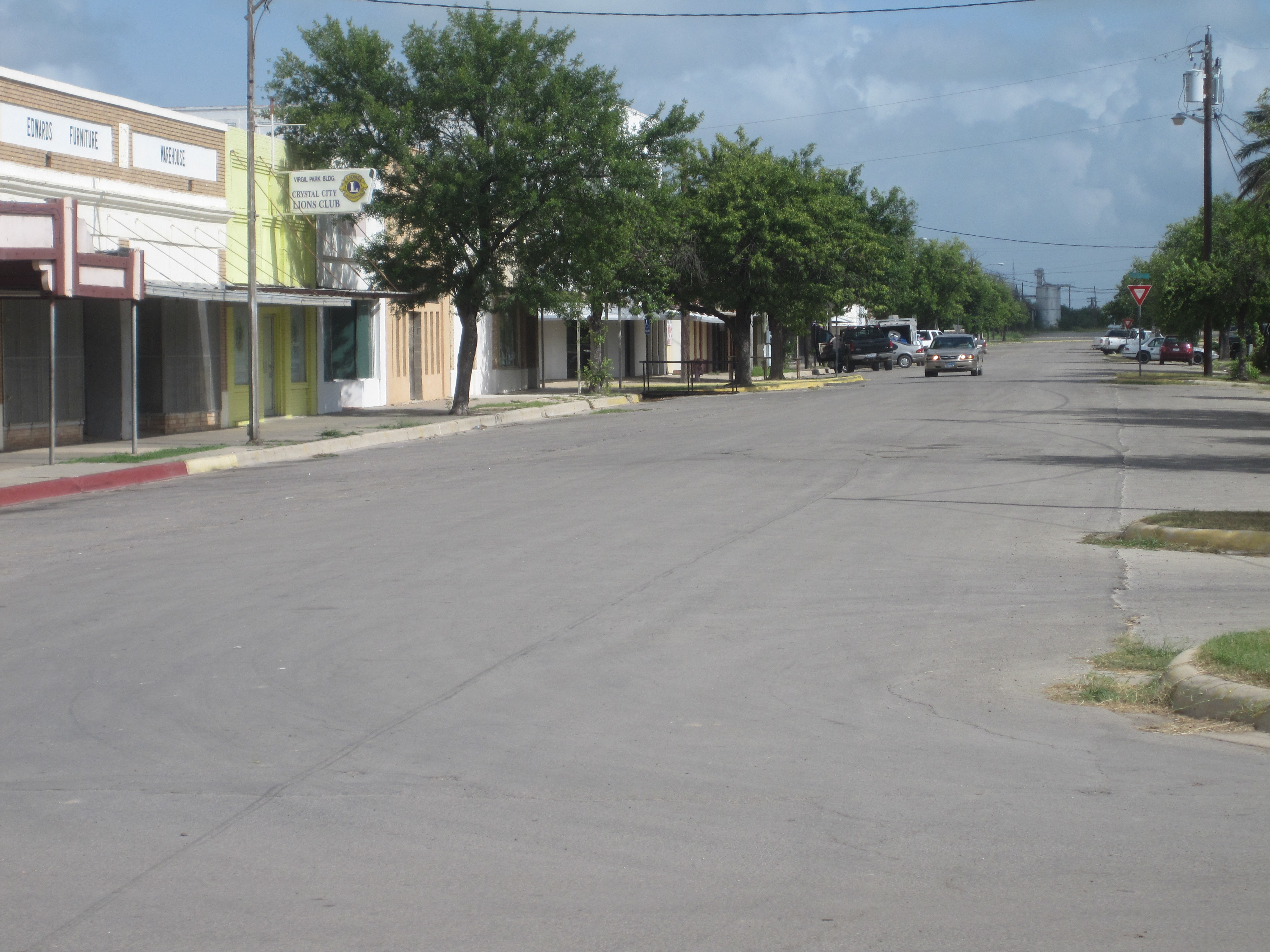 I took photo with Canon camera in Crystal City, TX.